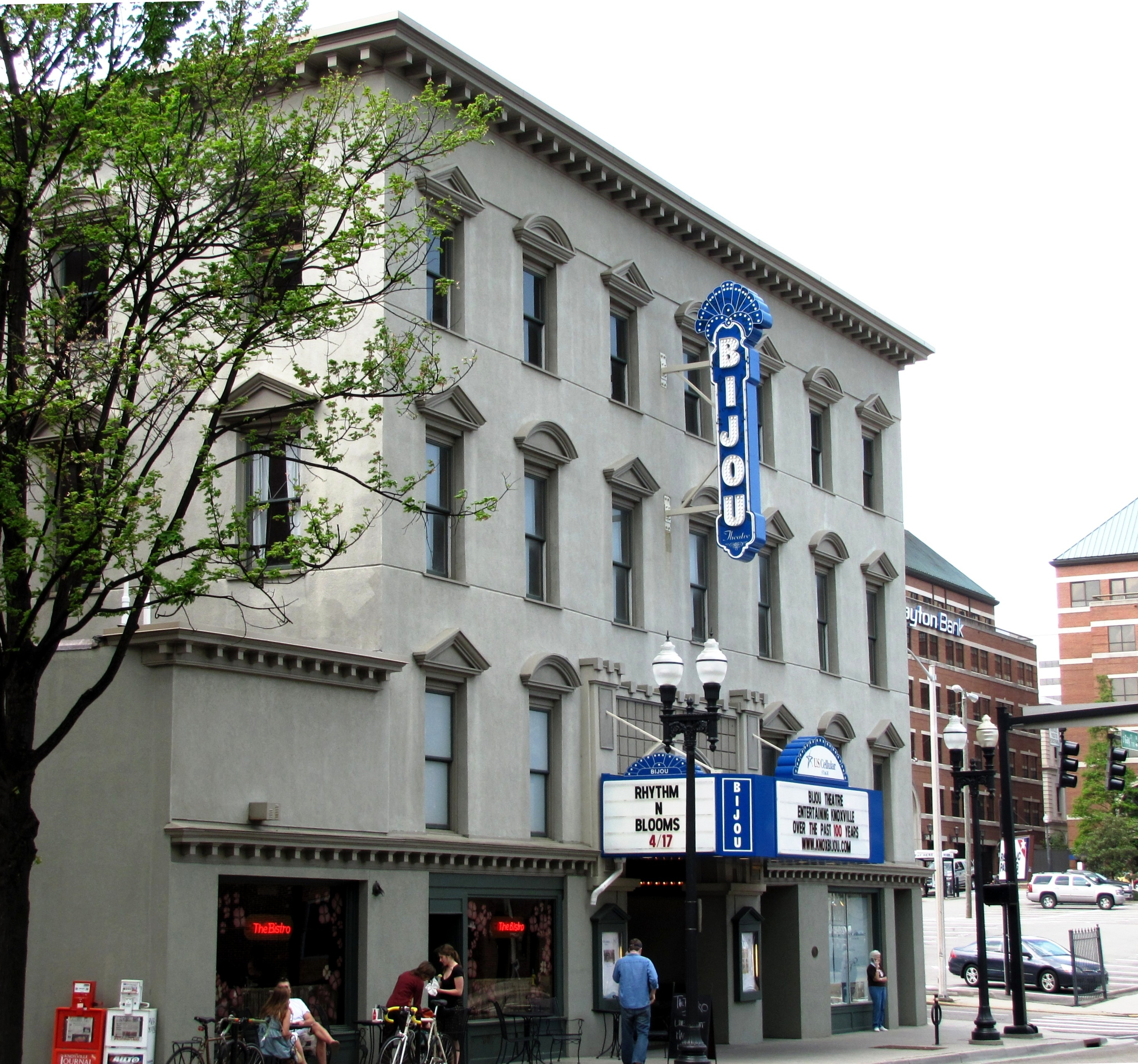 The NRHP-listed Bijou Theater and Lamar House Hotel in Knoxville, Tennessee, USA. The Lamar House Hotel was built in 1816, and the Bijou Theater was added to the hotel in the 1900s.